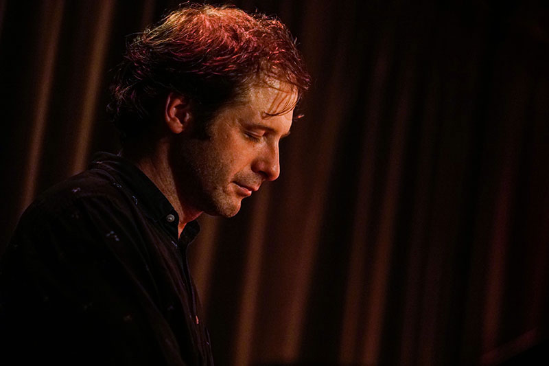 Ivo Neame performing with PHRONESIS (Jasper Høiby (b), Anton Eger (d)) in Aarhus, Denmark 2018